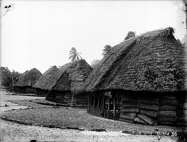 A village on the Manu'a Island Group, Samoa, circa 1890-1910 showing traditional Samoan oval thatched houses. Gagana Samoa: Fale i Manu'a, Samoa. O le ata e fa'apea na pu'e i le va o tausaga 1890 i le 1910.